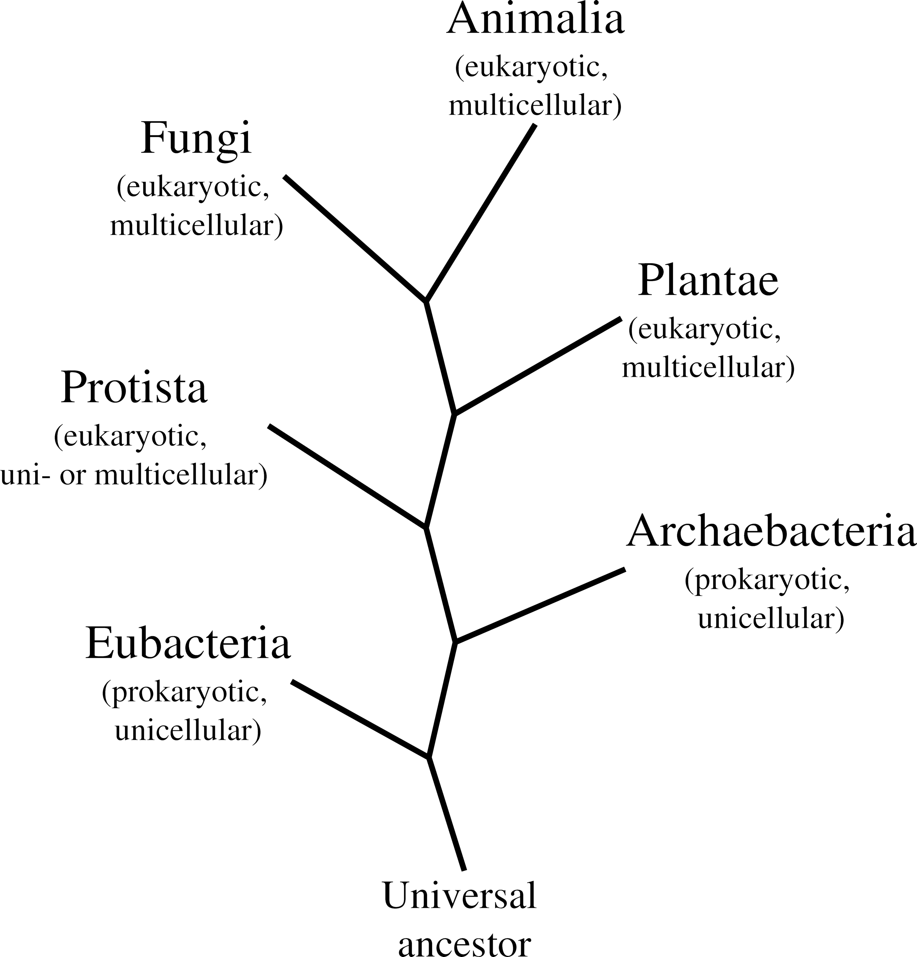 Tree of Life with six kingdoms according to Woese (1977), loosely drawn from figure 15.12 of Brock's Biology of Microorganisms, 8th edition (1997).